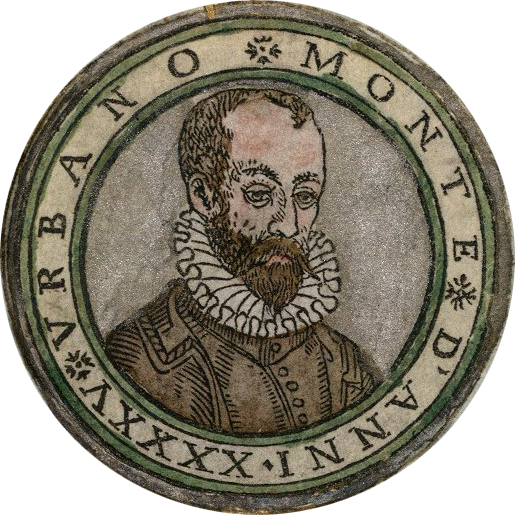 Self-portrait by Urbano Monti at age 45 found in the planisphere included in his work Trattato universale. Descrittione et sito de tutta la Terra sin qui conosciuta